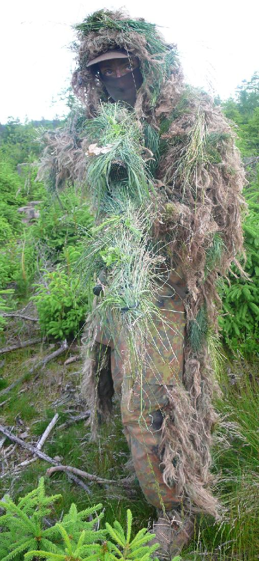 A picture of an german airsoft sniper in a ghillie suit.